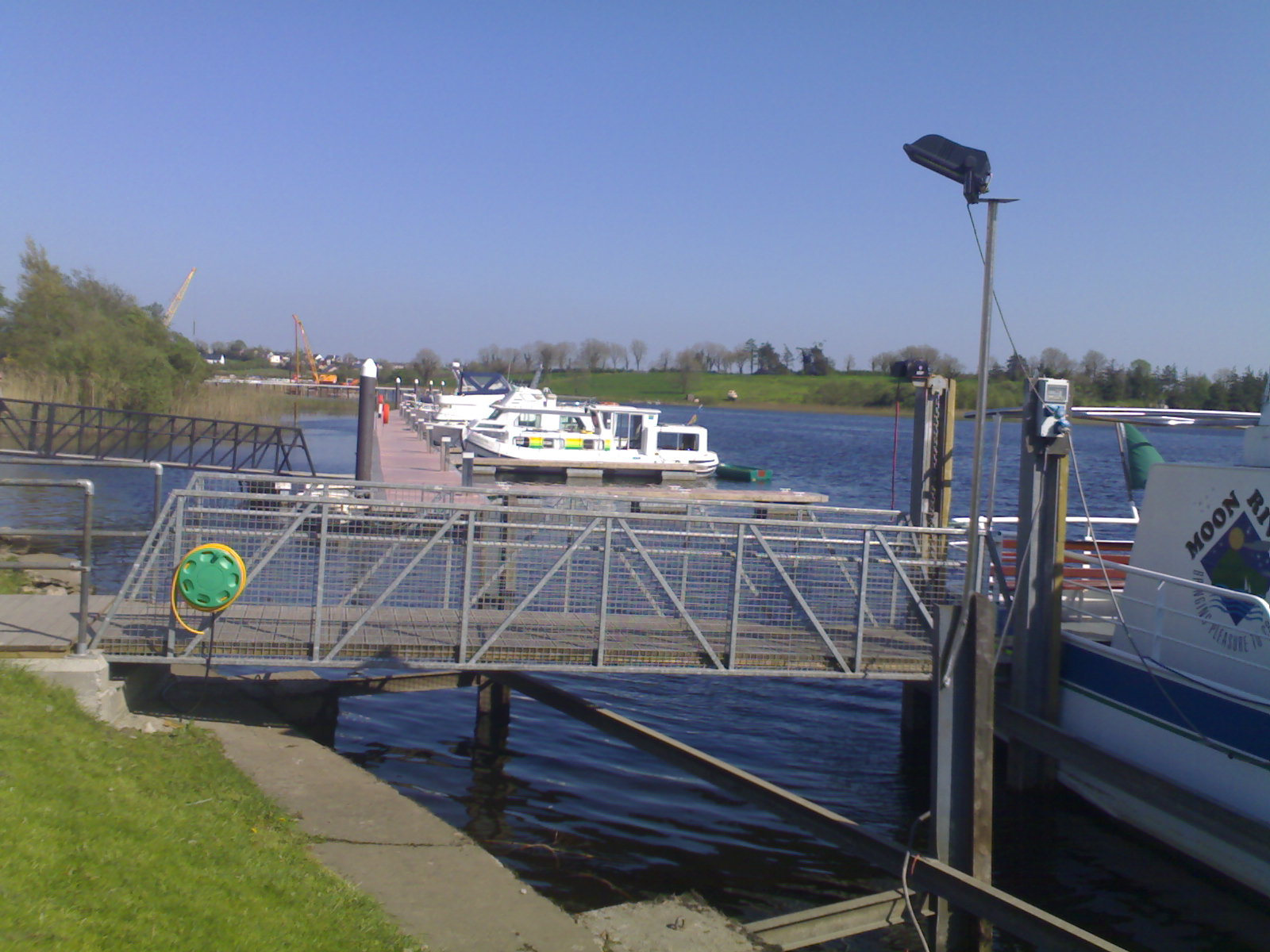 le_port_Carraick-on-Shannon.jpg